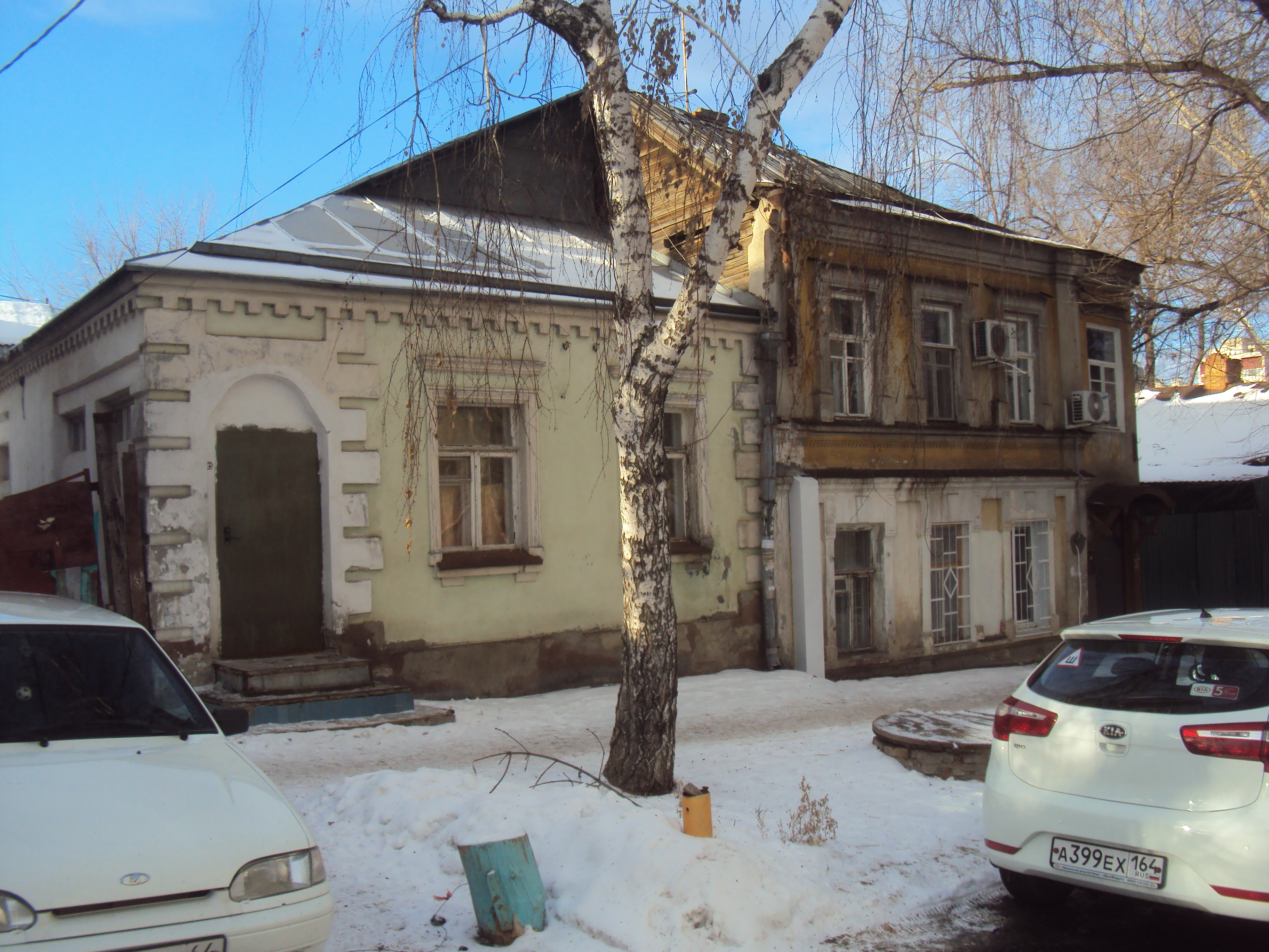 The house where the writer lived Fedin